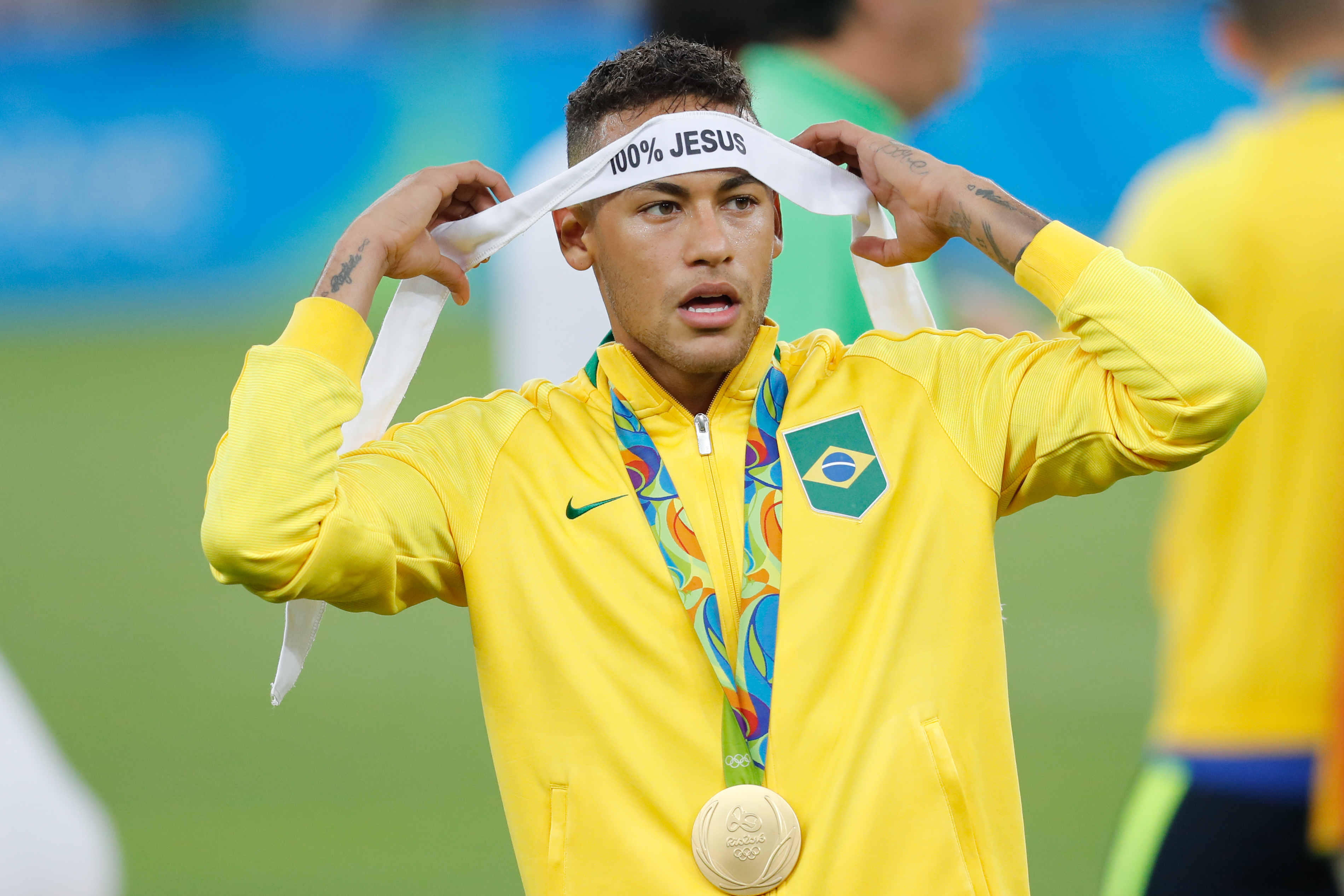 Rio de Janeiro - Brasil vence Alemanha e conquista primeiro ouro olímpico do futebol (Fernando Frazão/Agência Brasil)